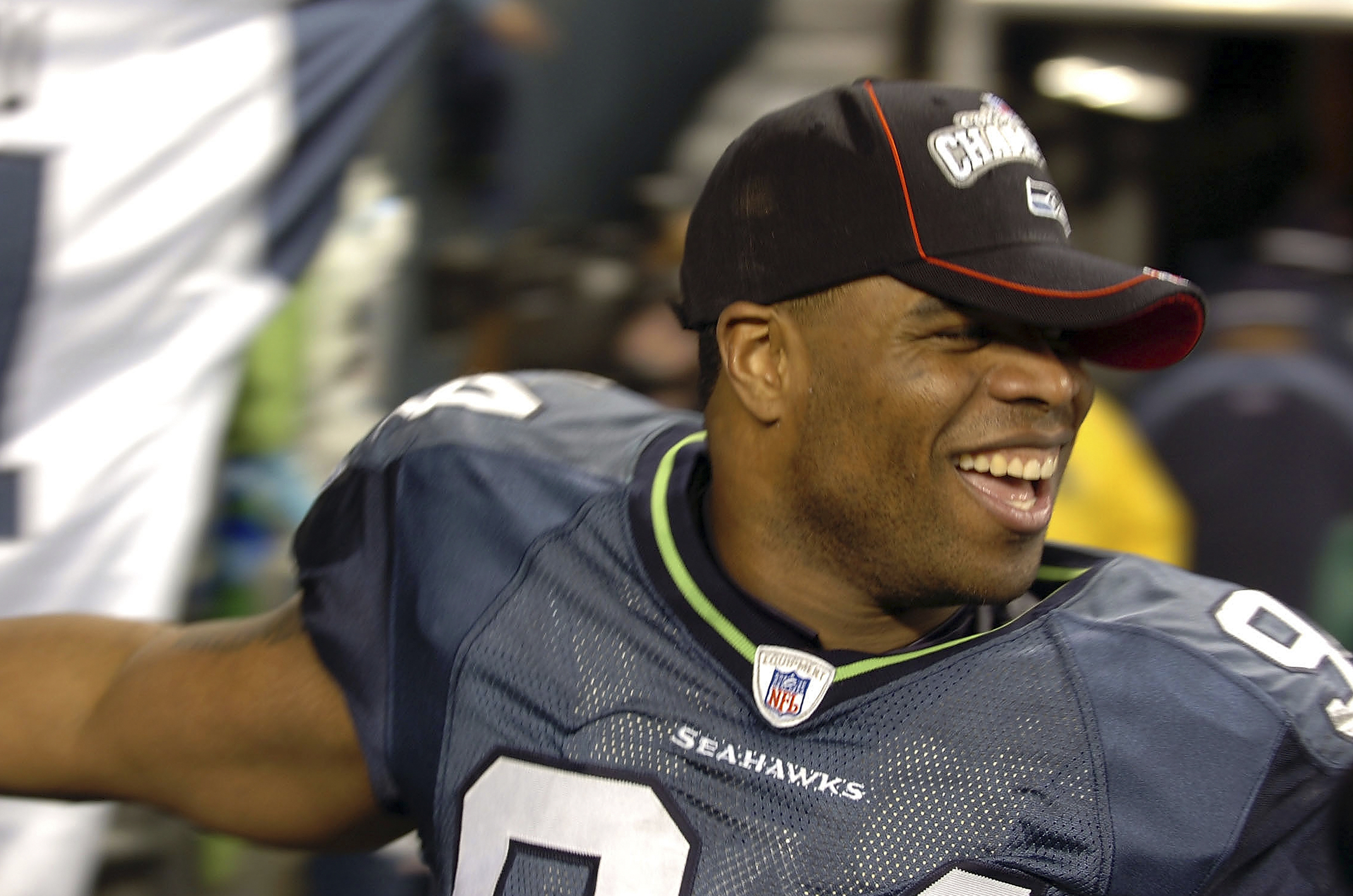 Starting defensive end Bryce Fisher sports a championship cap and a big smile after the Seattle Seahawks punched their tickets to Super Bowl XL by defeating the Carolina Panthers, 34-14, in Seattle on Jan. 22.